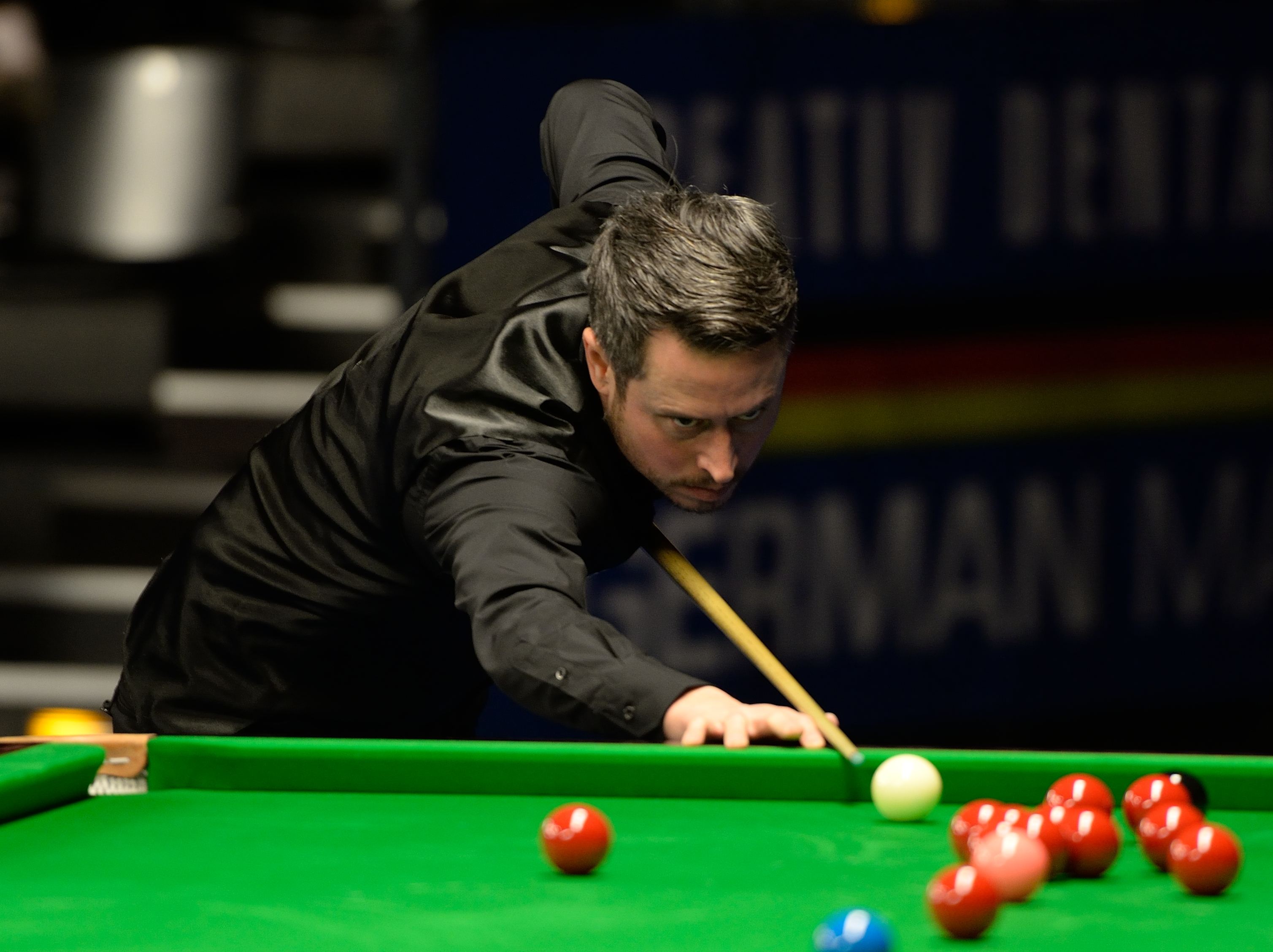 Picture taken in Berlin during the Snooker German Masters in 2015. Alfie Burden.